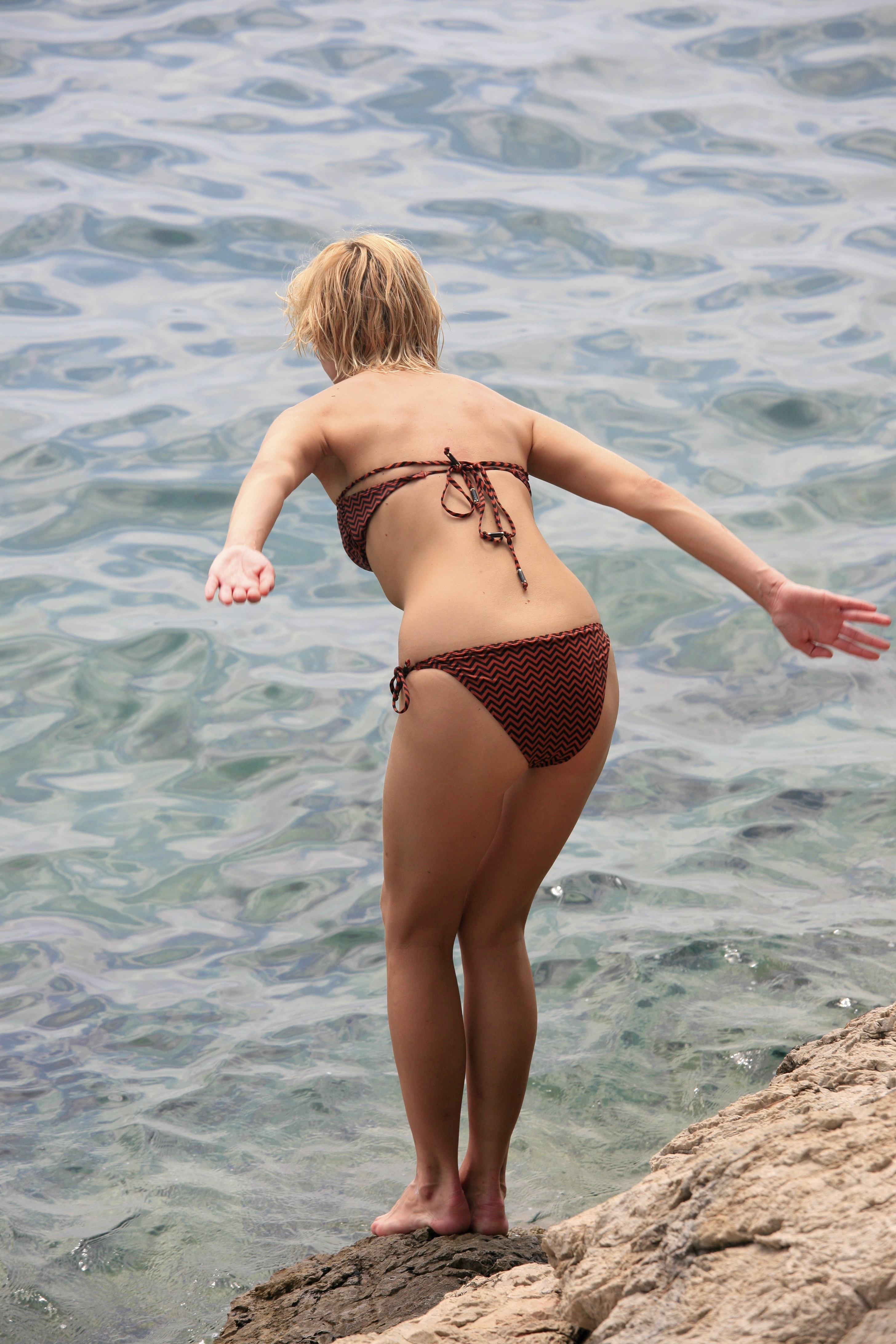 Take a Plunge, Dubrovnik.